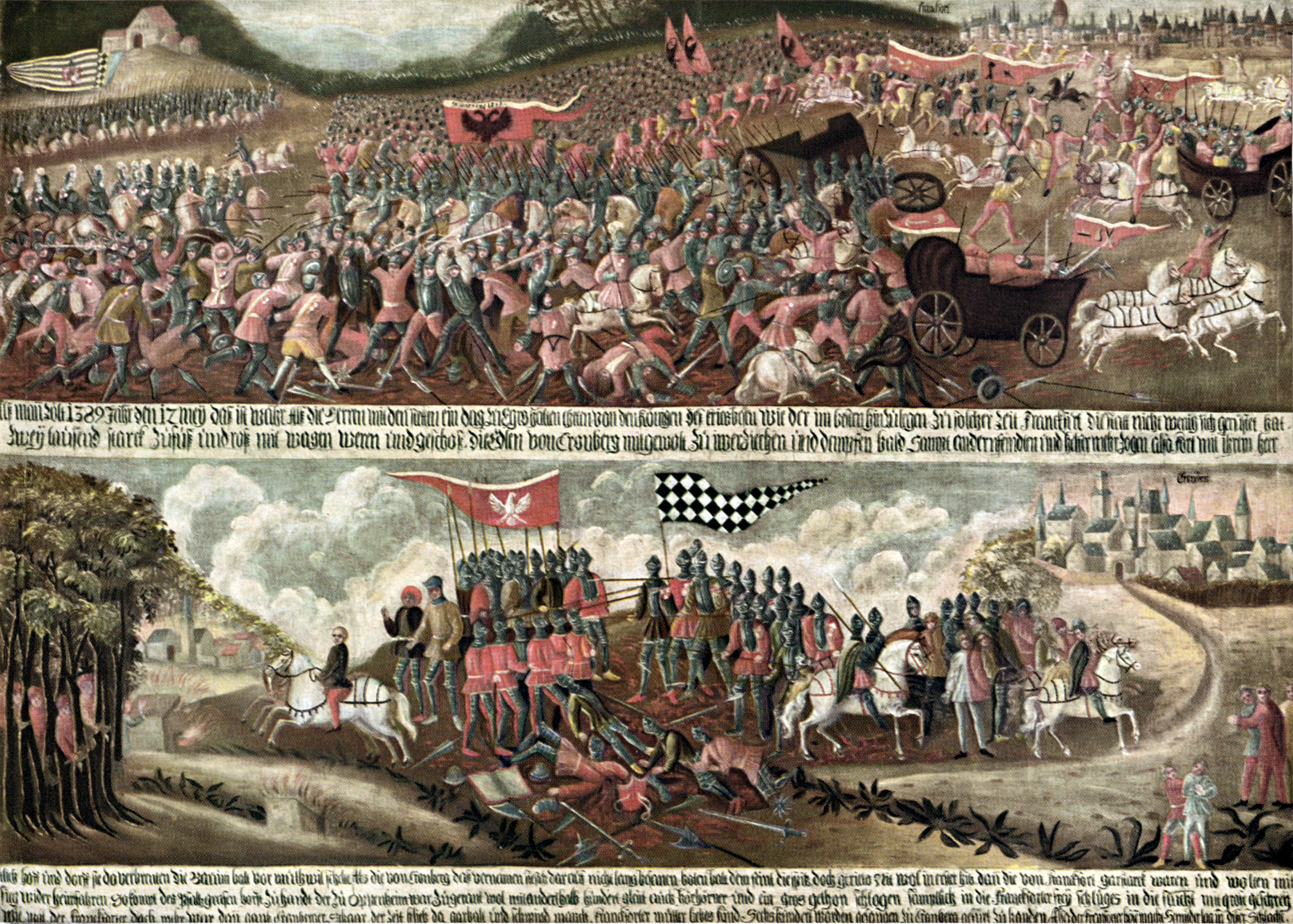 Defeat of the Frankfurt troups in the Battle of Kronberg in 1389